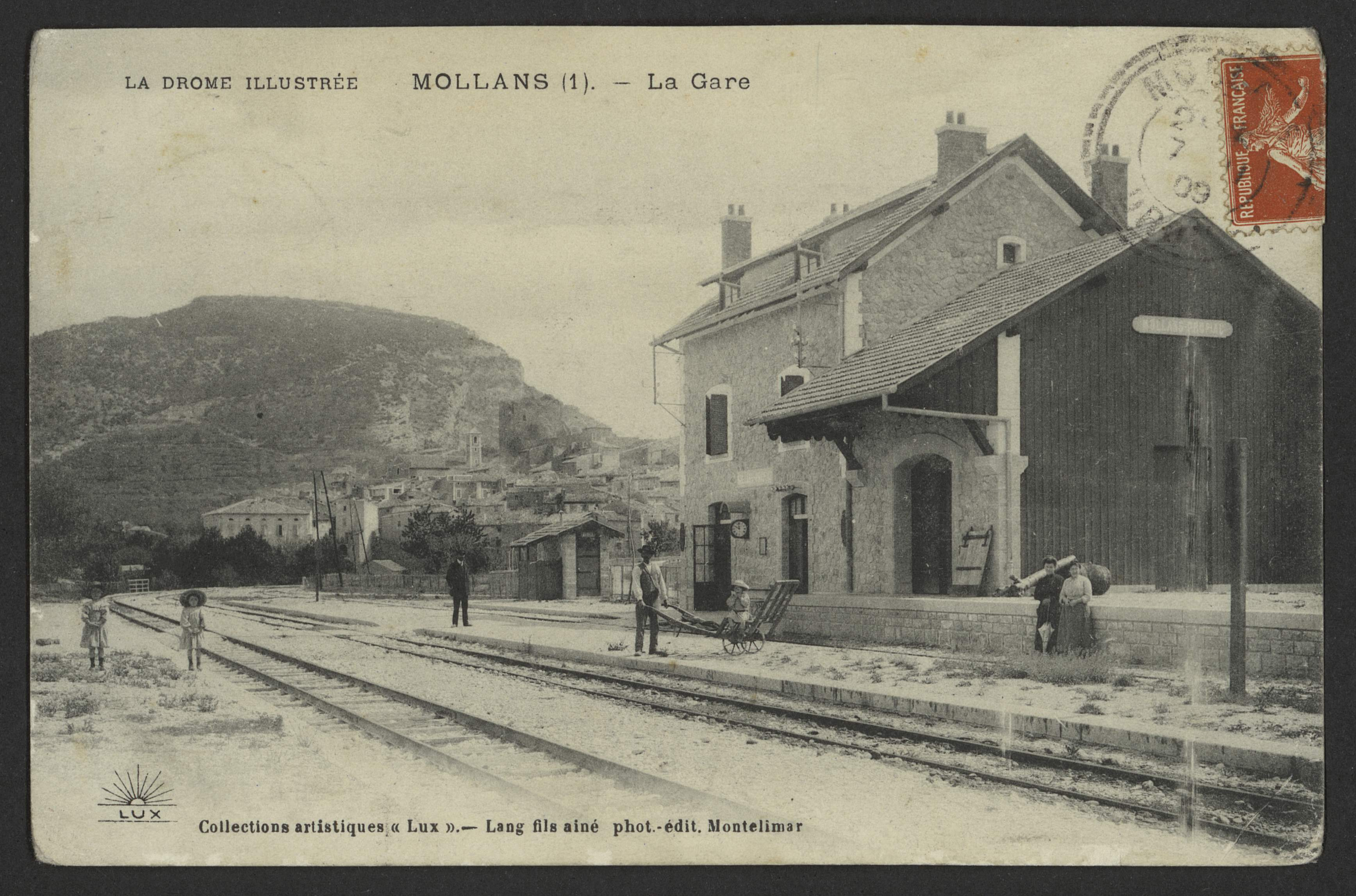 CA 1900 - 1909